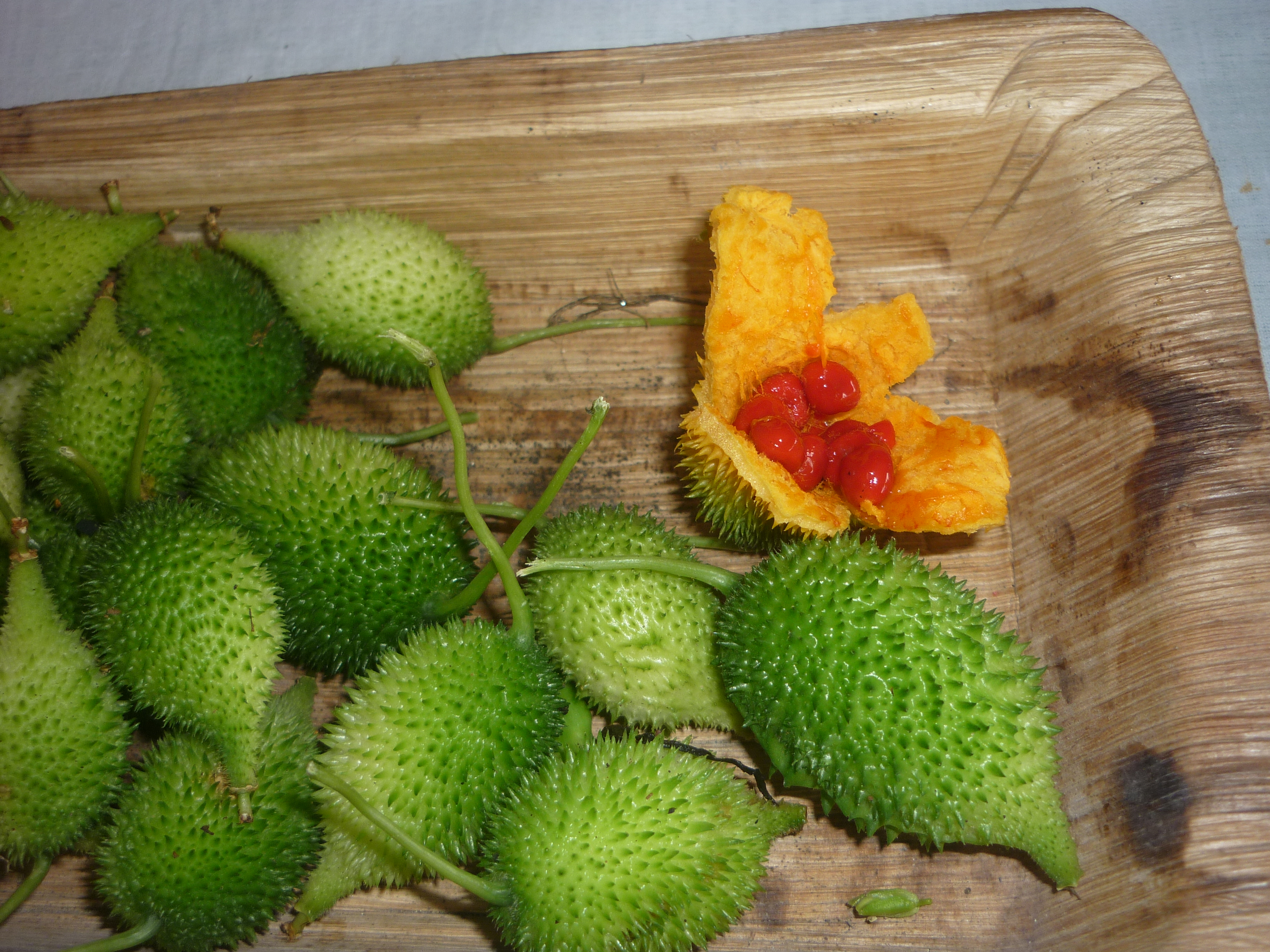 Erumapaval is a vegetable